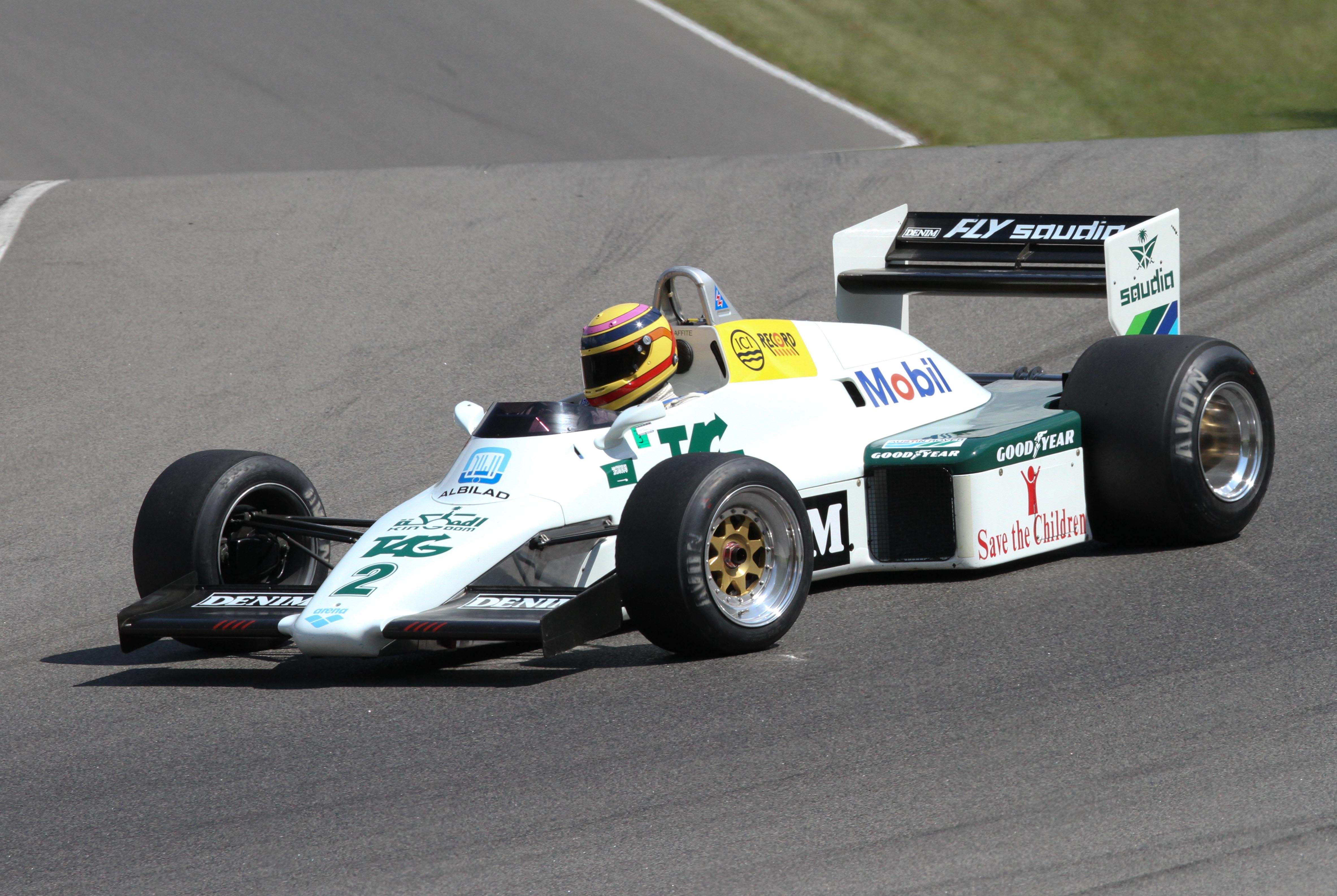 Dean Baker driving a Williams FW08C Formula One racing car, at Circuit Mont-Tremblant during the 2010 Legends of Motorsport meeting.